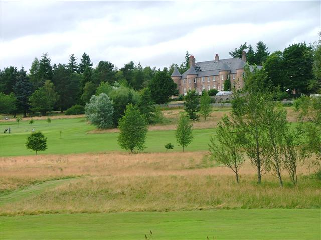 Alastrean House Overlooking Tarland Golf Course.